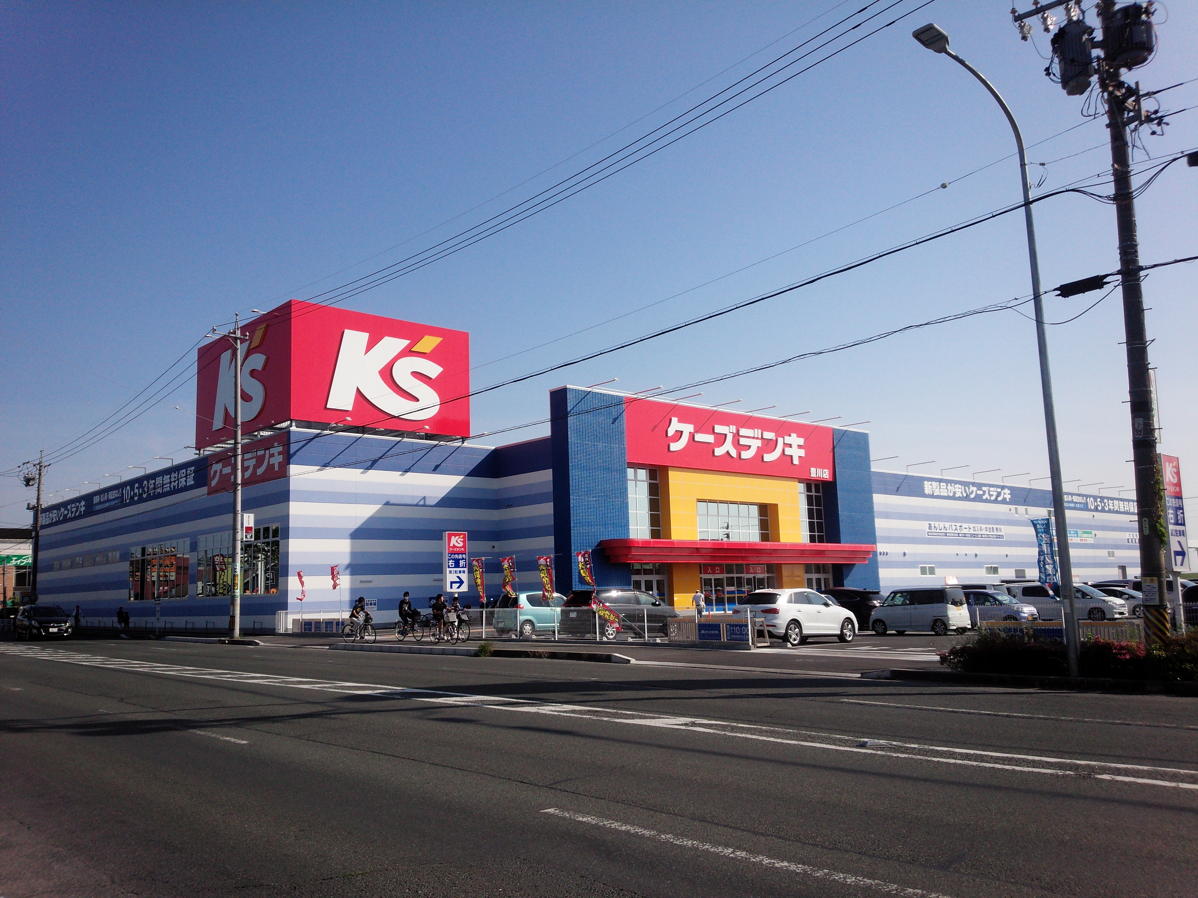 K's Denki Toyokawa shop (ケーズデンキ豊川店), located at 500-1 Nagareda, Masaoka-cho, Toyokawa, Aichi, Japan